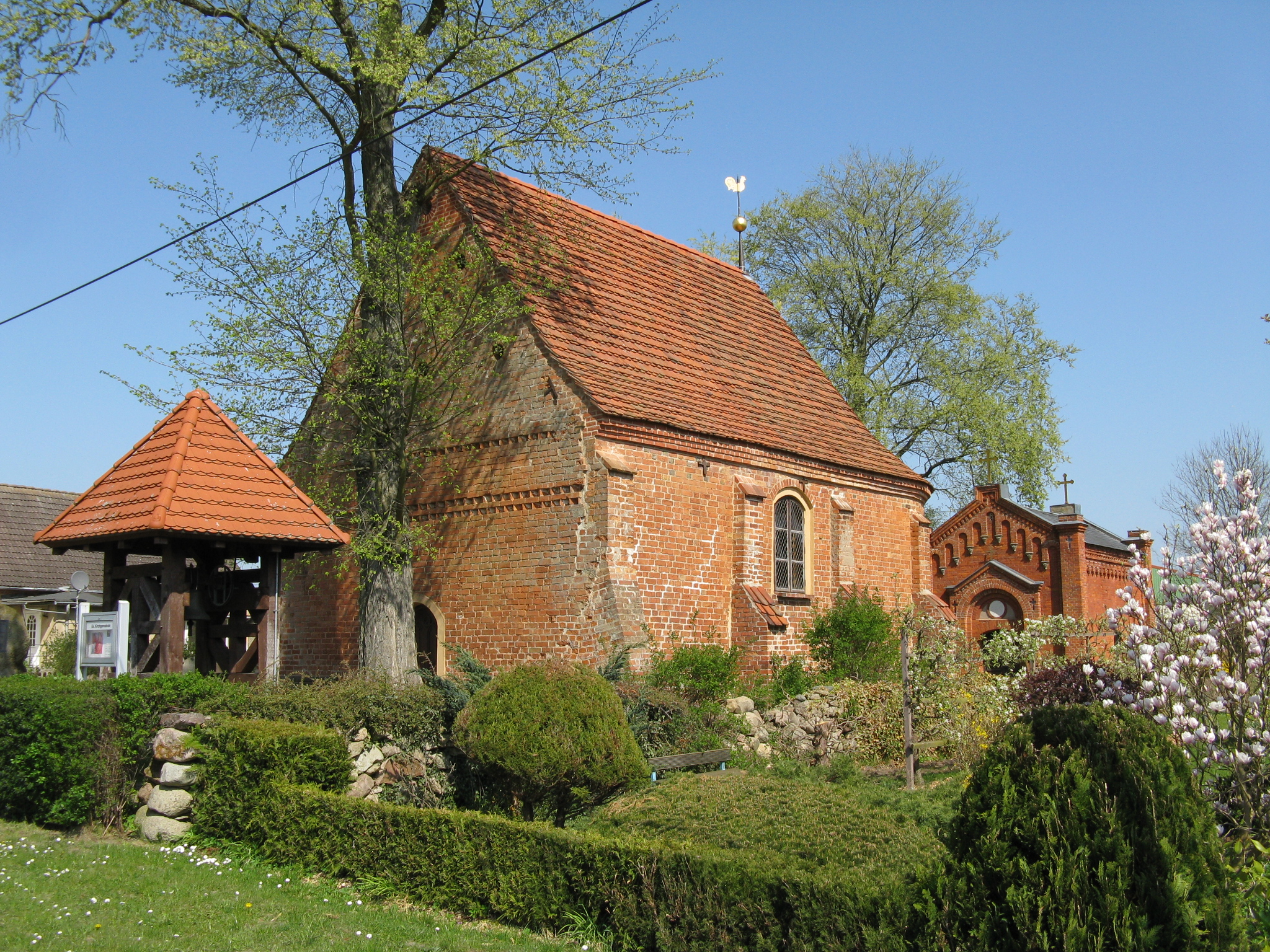 Church and chapel in Borkow, district Ludwigslust-Parchim, Mecklenburg-Vorpommern, Germany